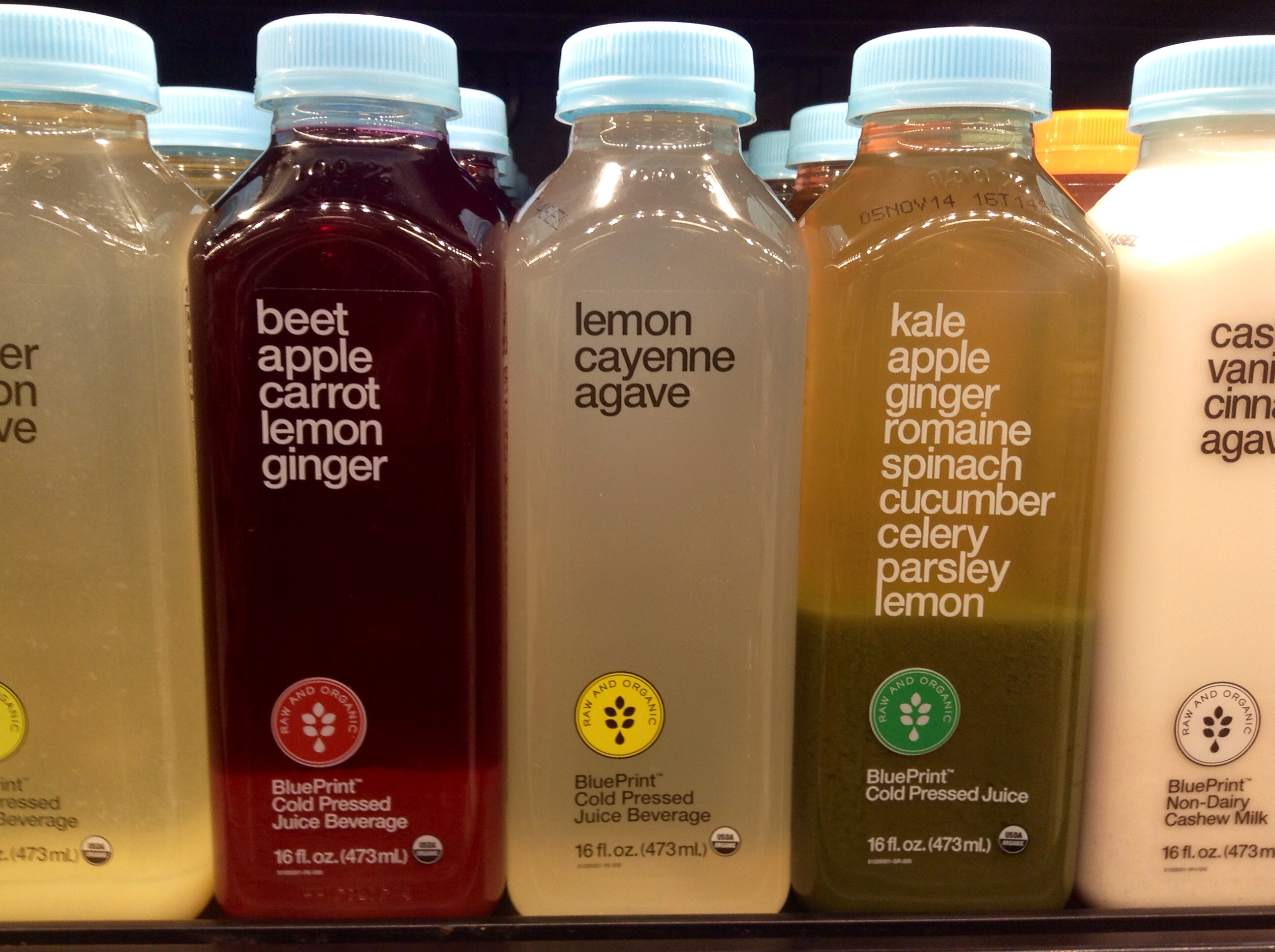 BluePrint Cold Pressed Juice Organic Raw Beverage. 2014 Target, by Mike Mozart of TheToyChannel and JeepersMedia on YouTube